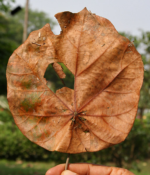 Kanak Champa Pterospermum acerifolium in Kolkata, West Bengal, India.